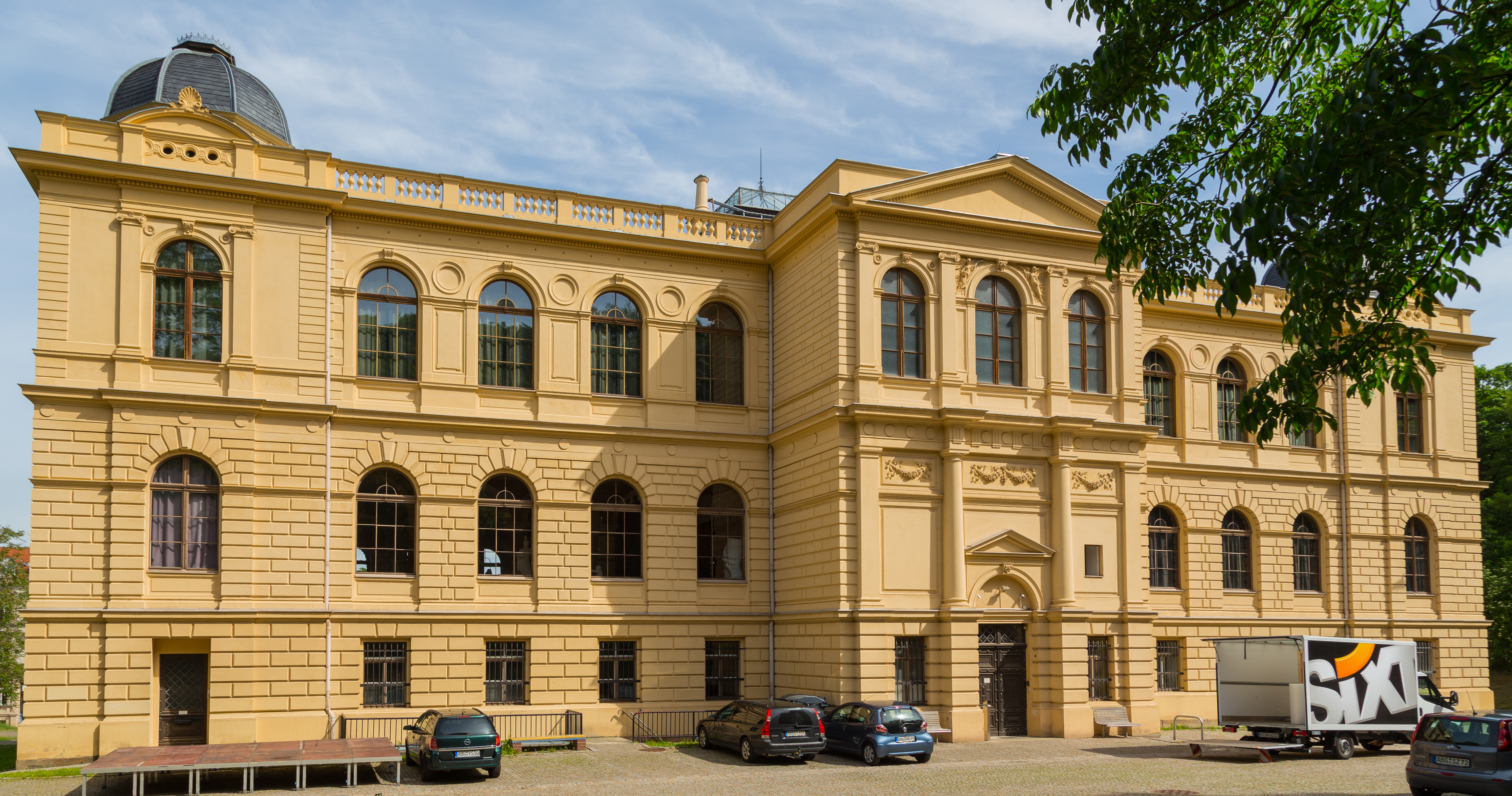 Lindenau Museum (Lindenau-Museum) in Altenburg, Landkreis Altenburger Land, Thuringia, Germany.